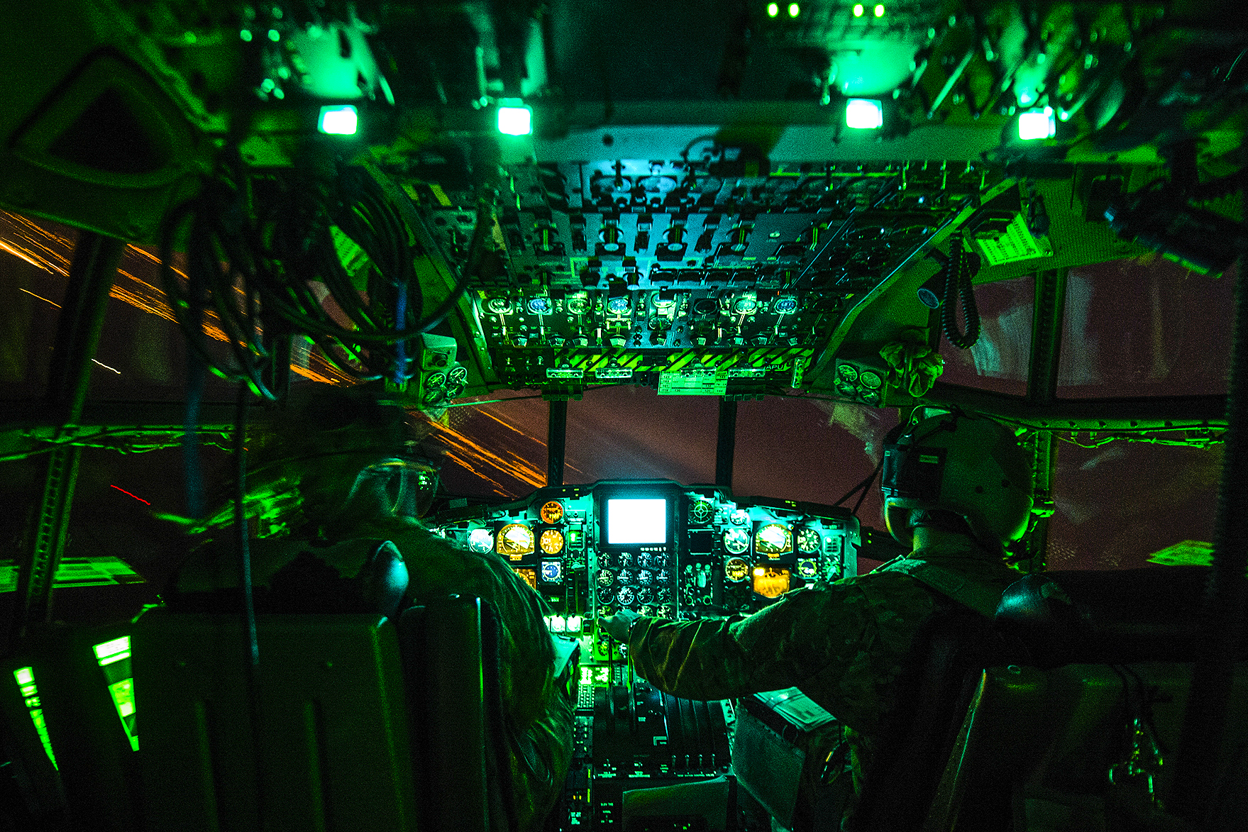 An Air Force pilot and co-pilot return to base in an AC-130W Stinger II after a live-fire mission to support Emerald Warrior on Hurlburt Field, Florida, USA, April 27, 2015. Emerald Warrior is the Defense Department's only irregular warfare exercise which allows joint and combined partners to train together and prepare for contingency operations. The airmen are assigned to the 73rd Special Operations Squadron.